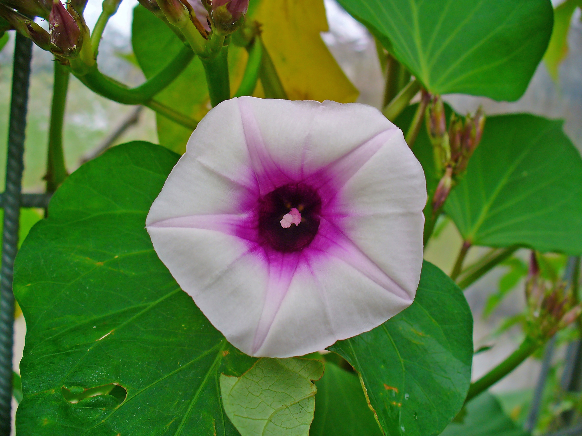 Ipomoea batatas, Convolvulaceae, Sweet Potato, flower; Botanical Garden KIT, Karlsruhe, Germany. The plant is used in homeopathy as remedy: Ipomoea batatas (Ipom-b.)